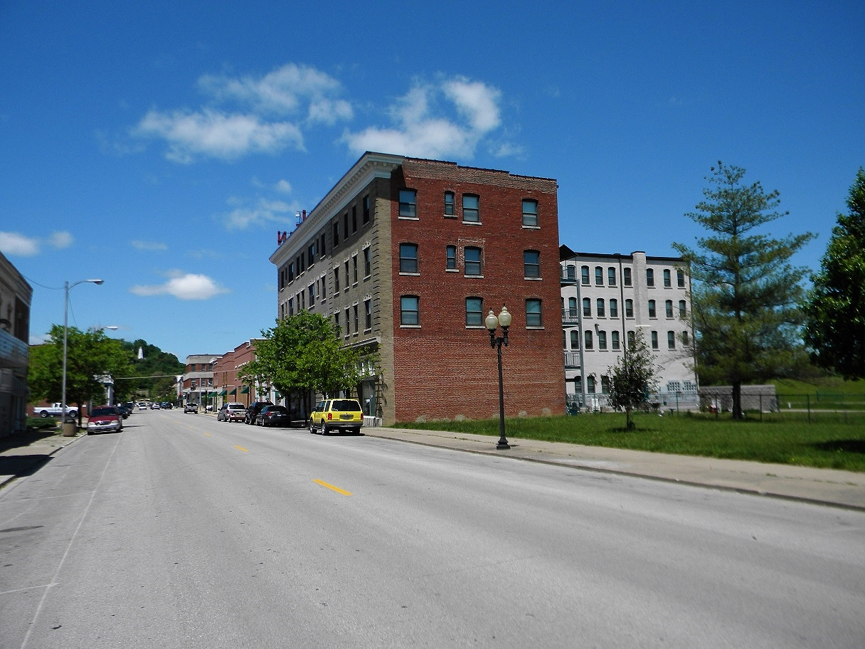 Digel Block Cited street address is at the position of the streetlight.